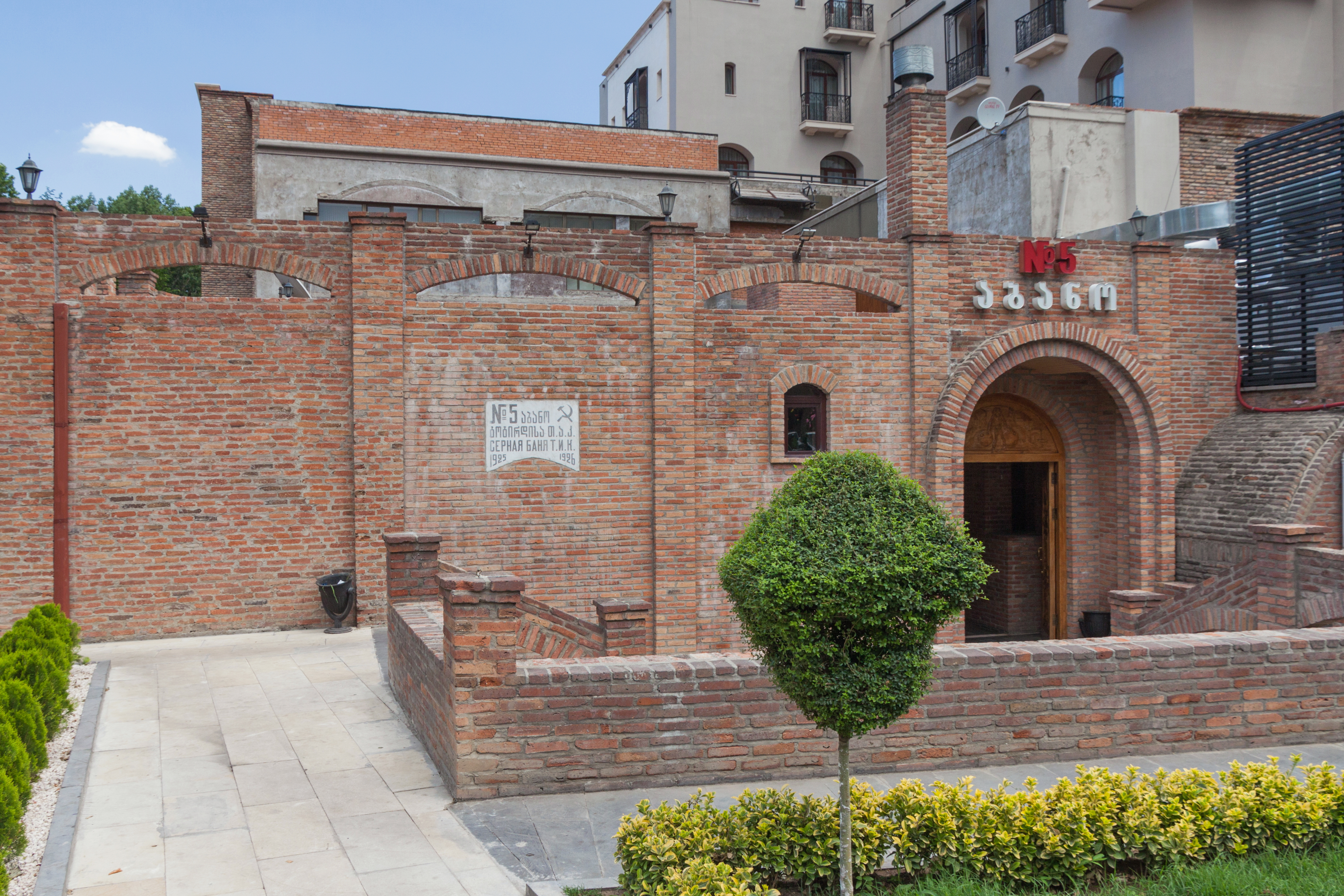 Sulfur baths in Abanotubani. Bath № 5. Tbilisi, Georgia.